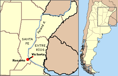 A map showing the Rosario-Victoria Bridge in Argentina (linking the cities of Rosario, Santa Fe Province, and Victoria, Entre Ríos Province, over the Paraná River. This map violates legal regulations Argentina (Ley de la Carta (Law No. 22963)